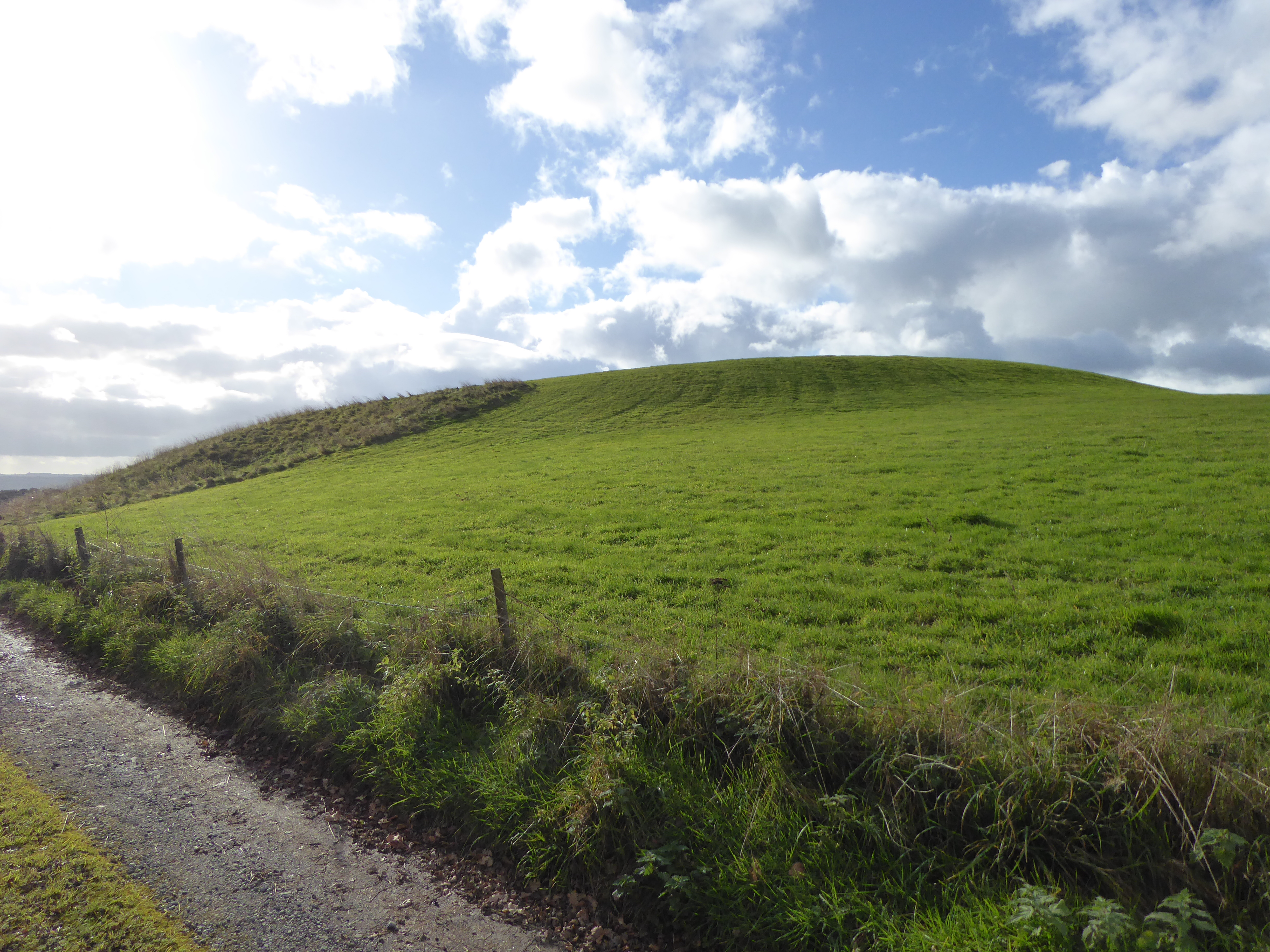 Hilltop/mound to right of entrance lane approaching Tower Farm, Swimbridge, Devon. Tower farm is believed to occupy the site of Ernsborough, an historic mansion house, of which only a tower was remaining in 1773 (according to Lysons, Daniel & Lysons, Samuel, Magna Britannia, Vol.6, Devonshire, London, 1822) hence the name of the present farm. The original structure may have occupied a burh/burg, meaning in Old English a "fortified place", or possibly beorg, a "mound, hill or burial mound". (Huxtable-Selly, Susan, Ernsborough: Notes on Origins, Cobbaton, Swimbridge, 2005, p.4)